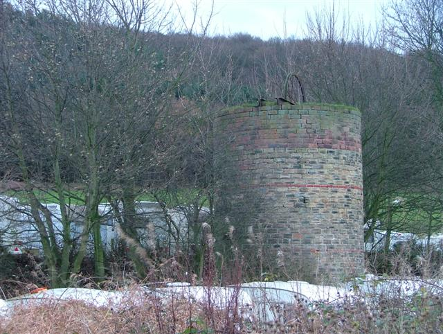 Disused ventilation shaft, mining works, Margrove Park, North Yorkshire